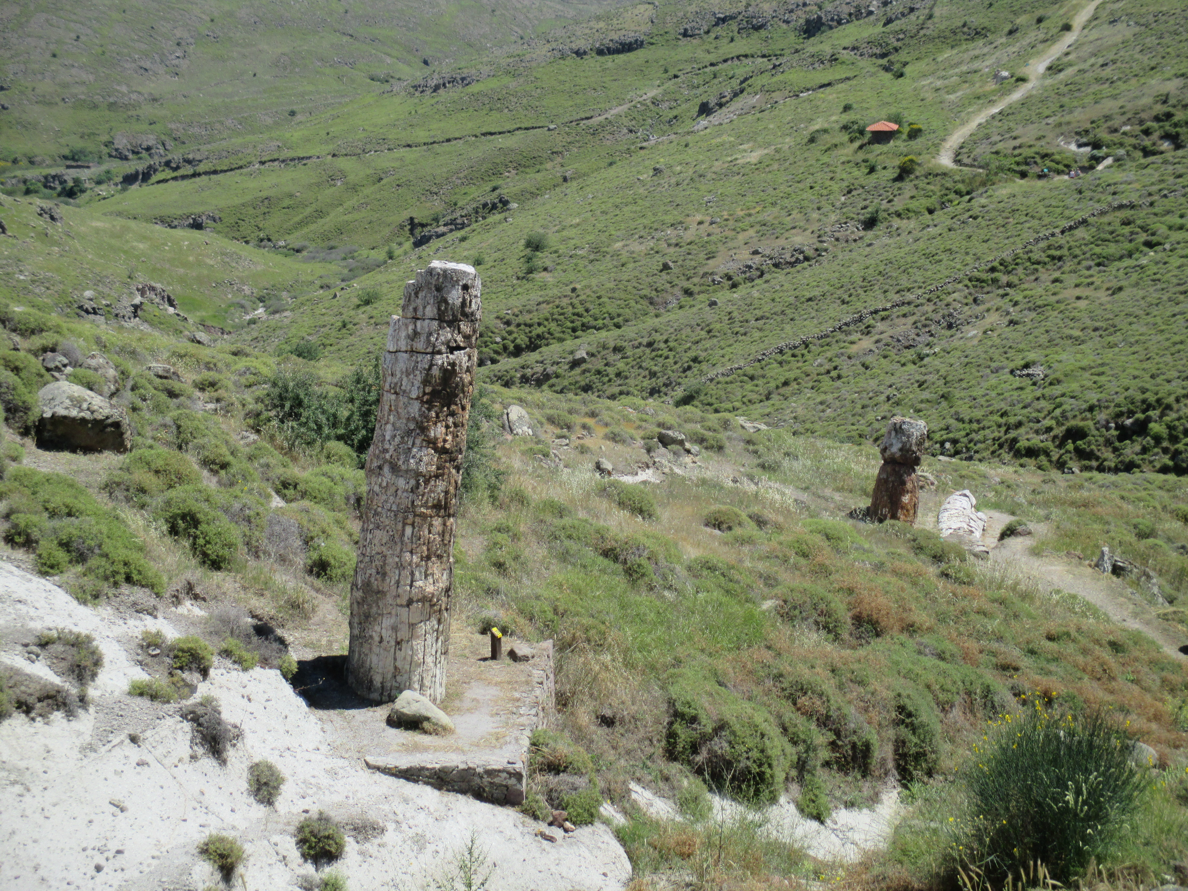 Petrified forest of Lesbos (Lesvos), Greece.